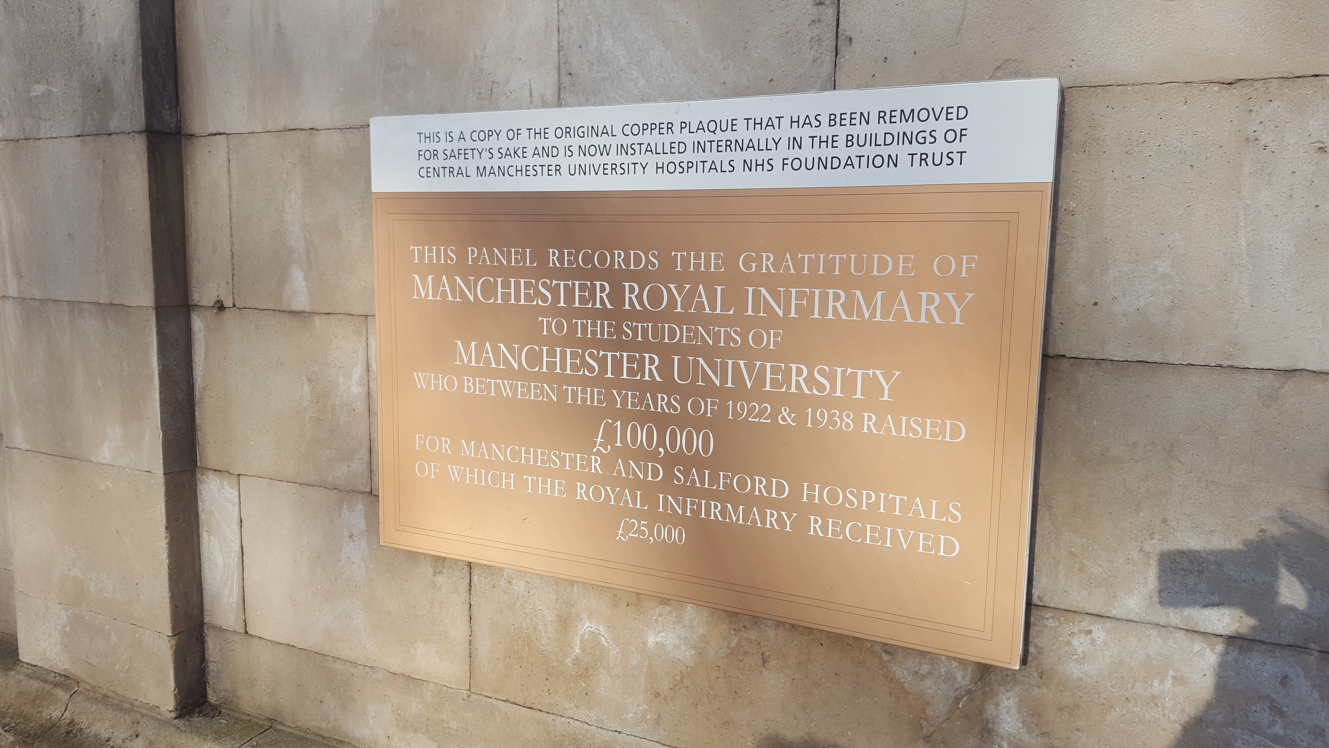 Plaque on the wall of Manchester Royal Infirmary commemorating the donations of students